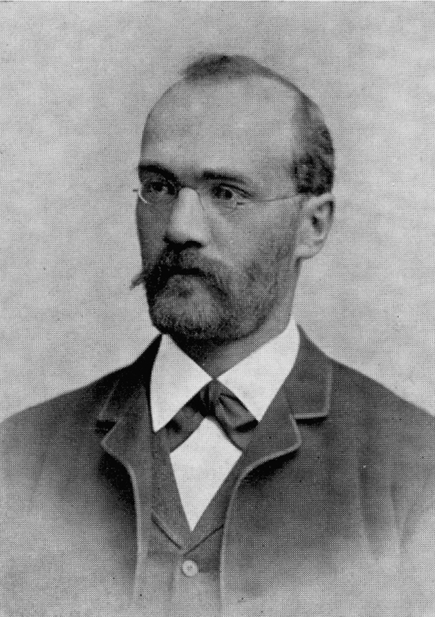 Erland Lagerlöf (1854-1913), Swedish scholar, teacher and translator of classical greek literature.